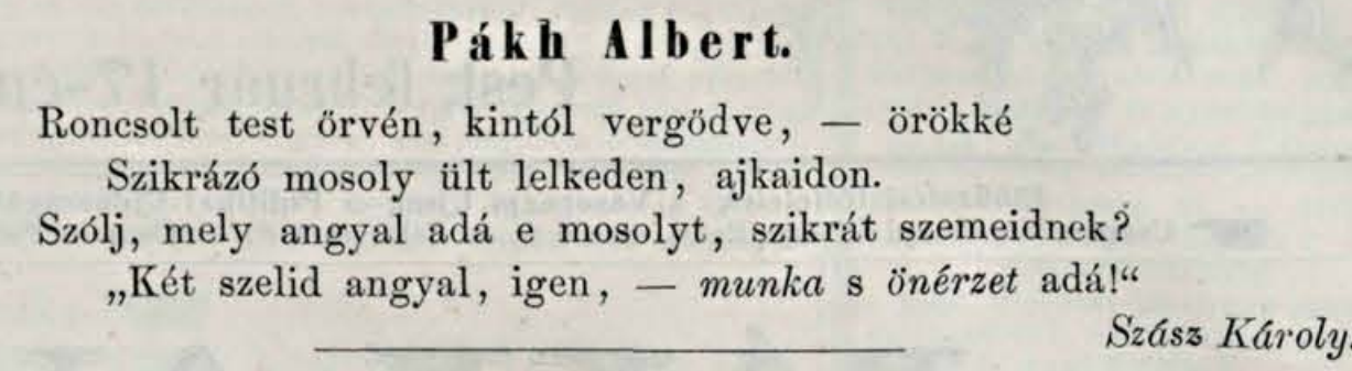 Poem of Szász Károly